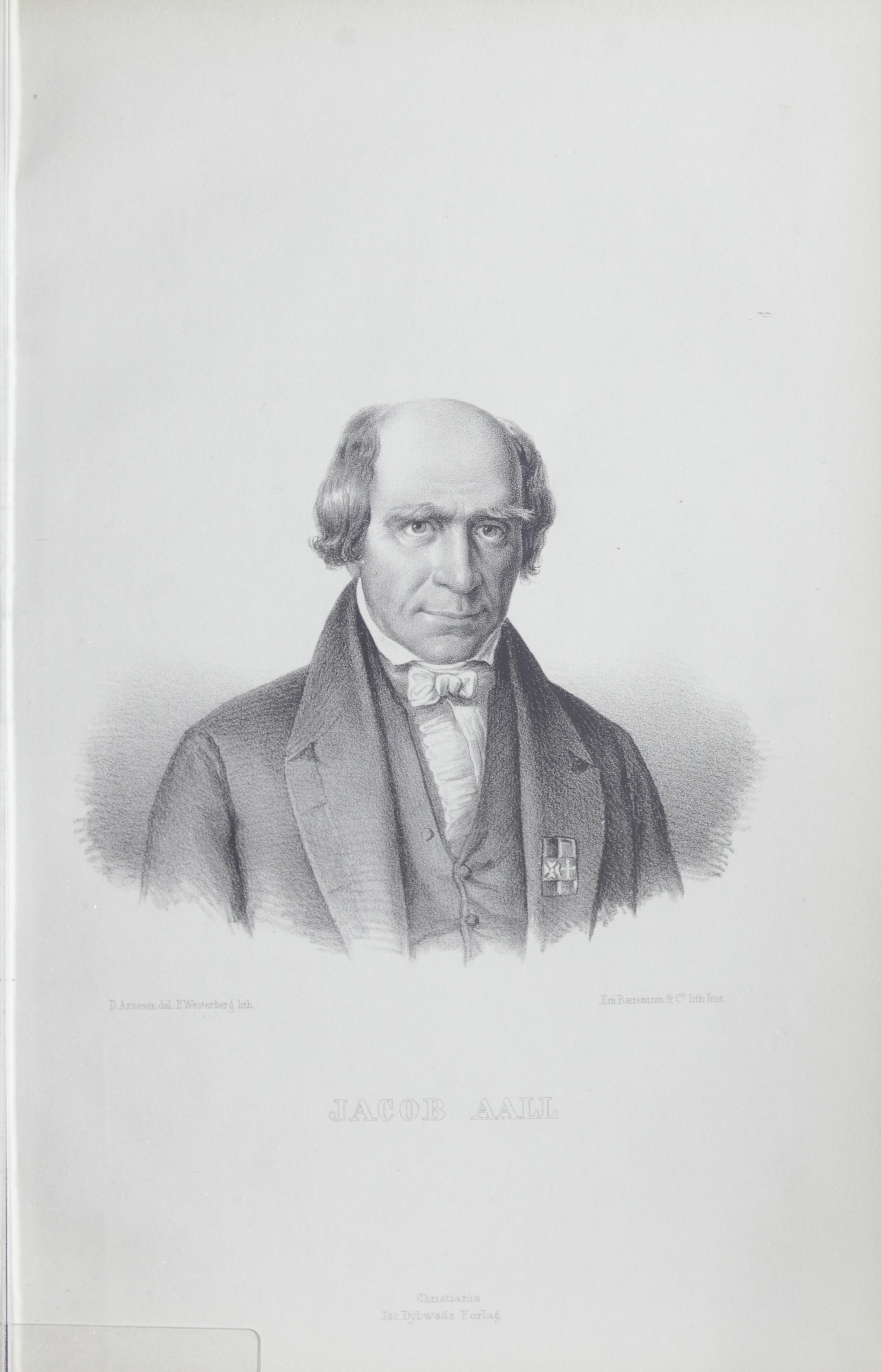 Illustration from the book "Eidsvold-galleri" by Botten-Hansen, Paul and published by Jac. Dybwad (Christiania, 1856-1860)